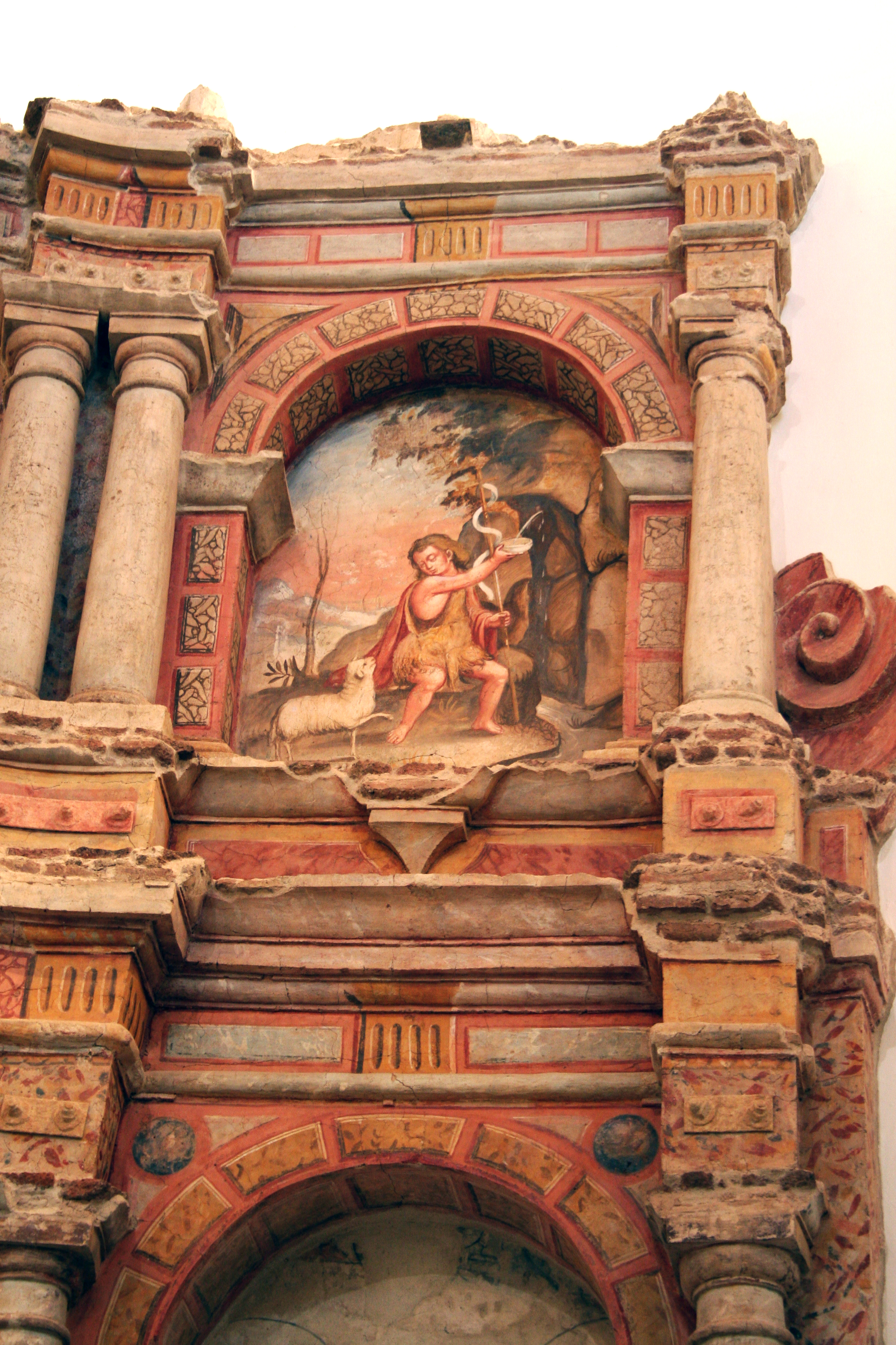 Altarpiece of masonry with wall decoration of paintings in the hermitage múdejar of Finibus Terrae of origin Templar. Almendral (Badajoz)